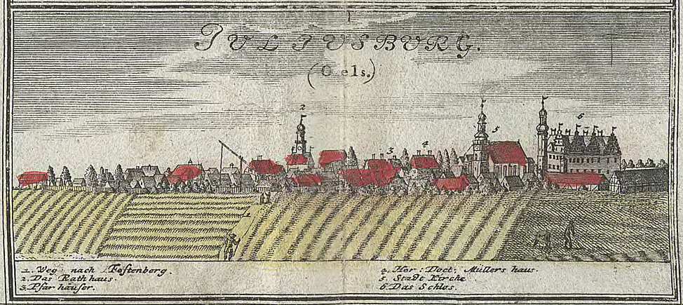 Juliusburg, today Dobroszyce in Poland.